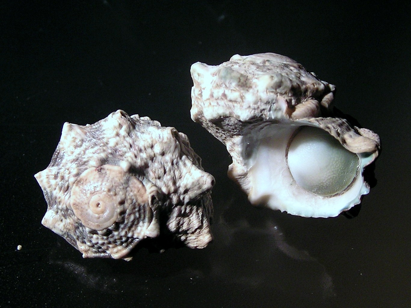 Lunella granulata (Gmelin, 1791) , a sea snail from the family Turbinidae; Tanzania